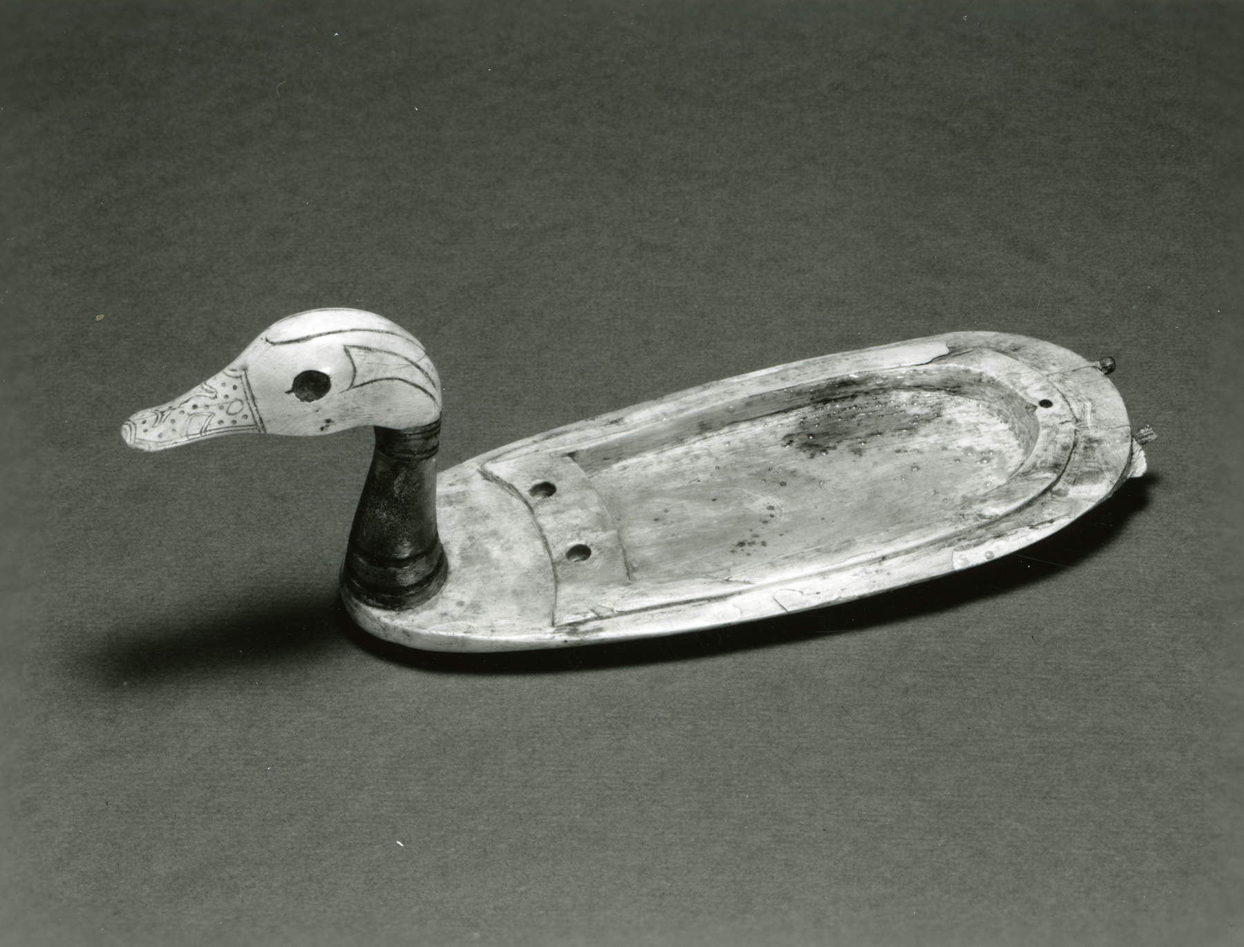 The wings of this charming cosmetic container pivot outward, revealing a storage compartment. The eyes were once inlaid. The pintail duck is one of Egypt's most common species of waterfowl and was a popular decorative motif.